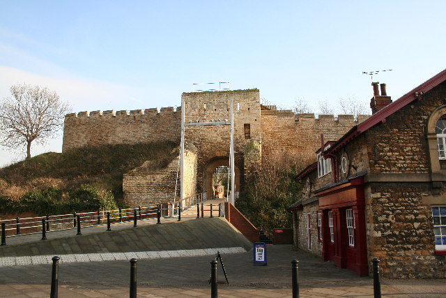 Lincoln Castle, West Gate. William I built a castle at Lincoln in 1068. the Norman West Gate stands on the site of the west gate to the Roman upper town and is still one of only two ways in or out of the castle.